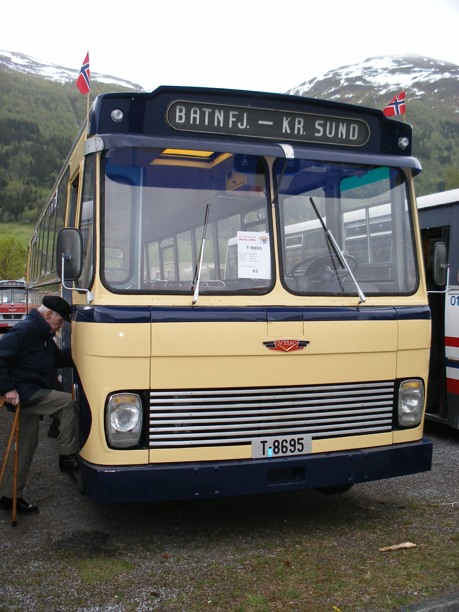 Old bus from Norway. Scania BF80. KLM/VBK. Aarø Automobilselskap.